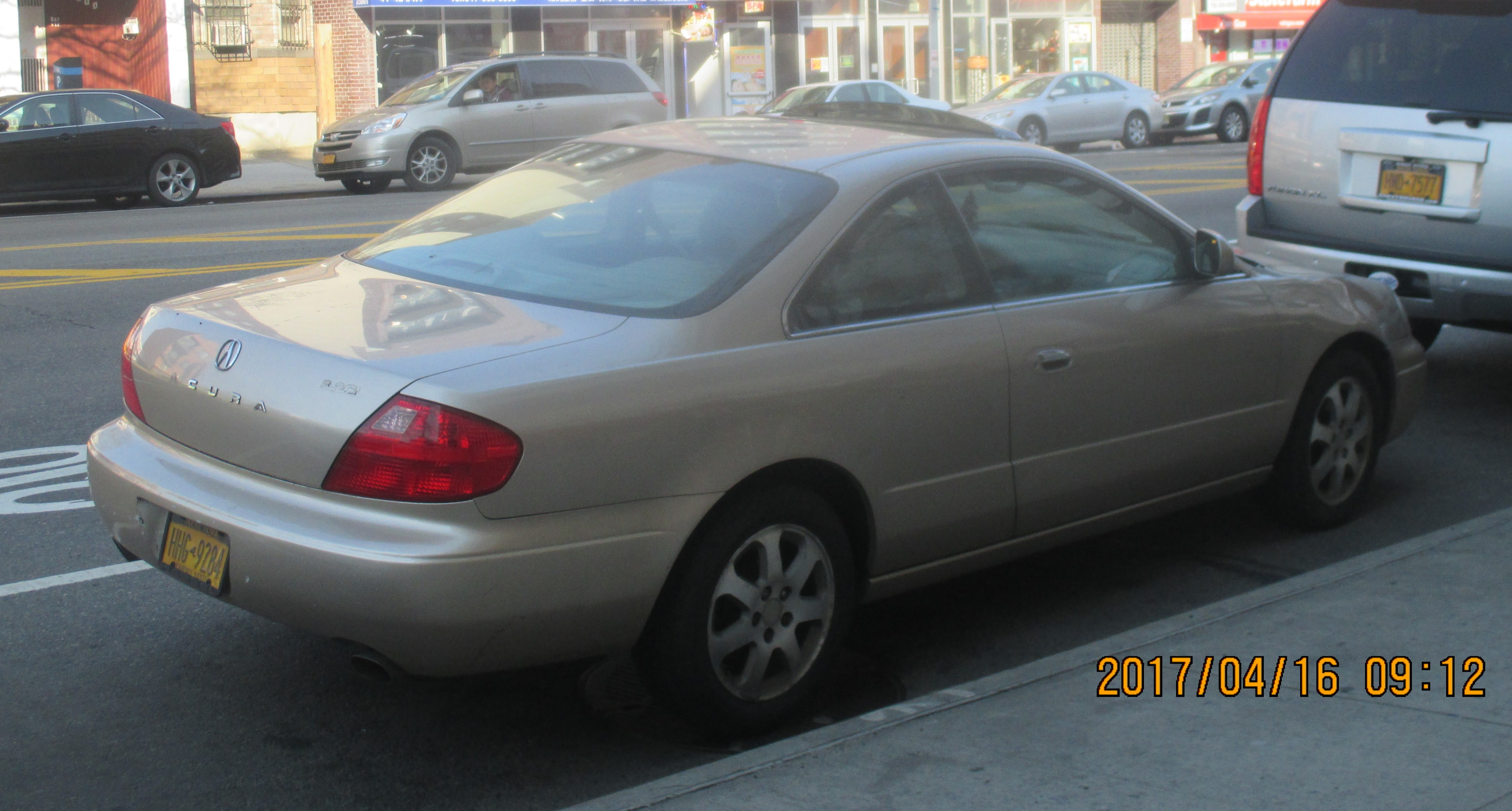 In Flushing, NY